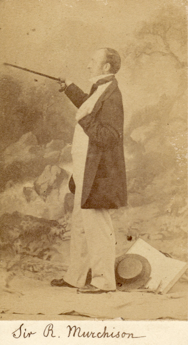 Sir Roderick Impey Murchison with cane, not dated, K.C. Gass collection